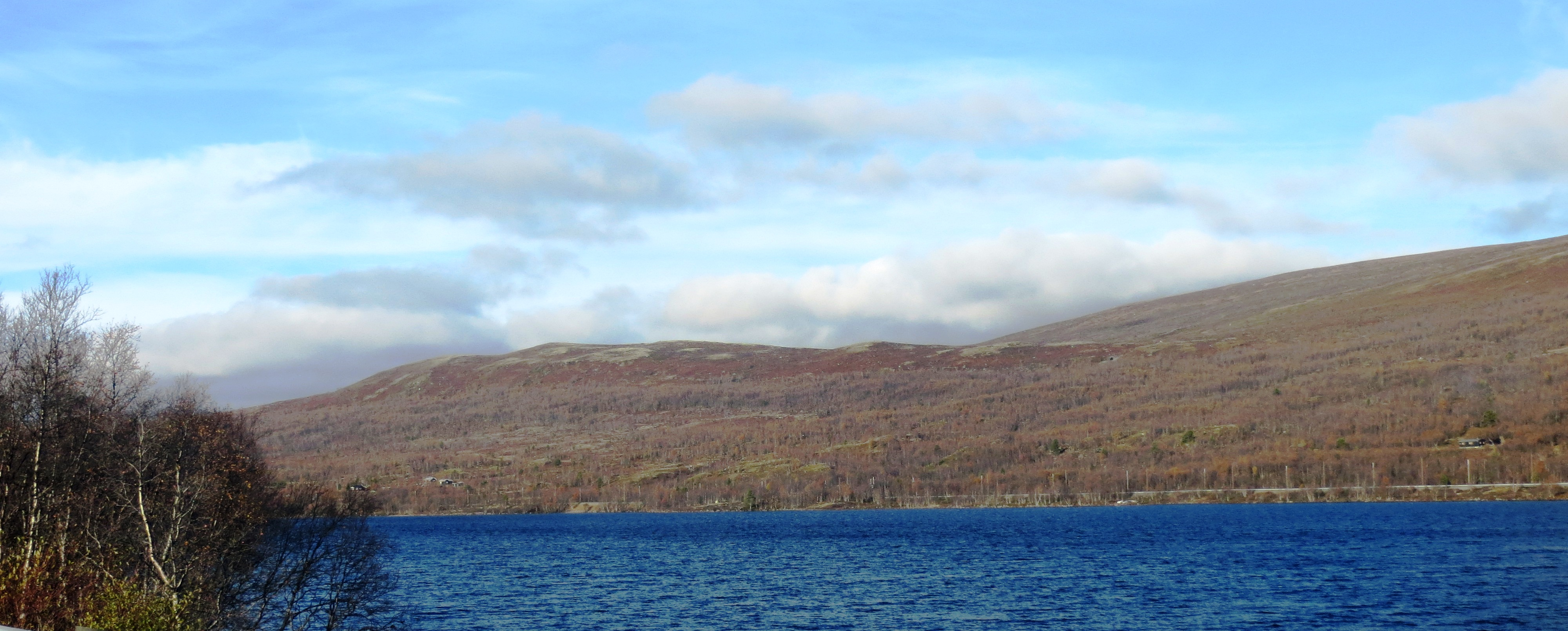 The lake Vålåsjøen and the mountain Ridge Grønsæterhøe, in the Dovrefjell Plateau, Oppland (Norway)